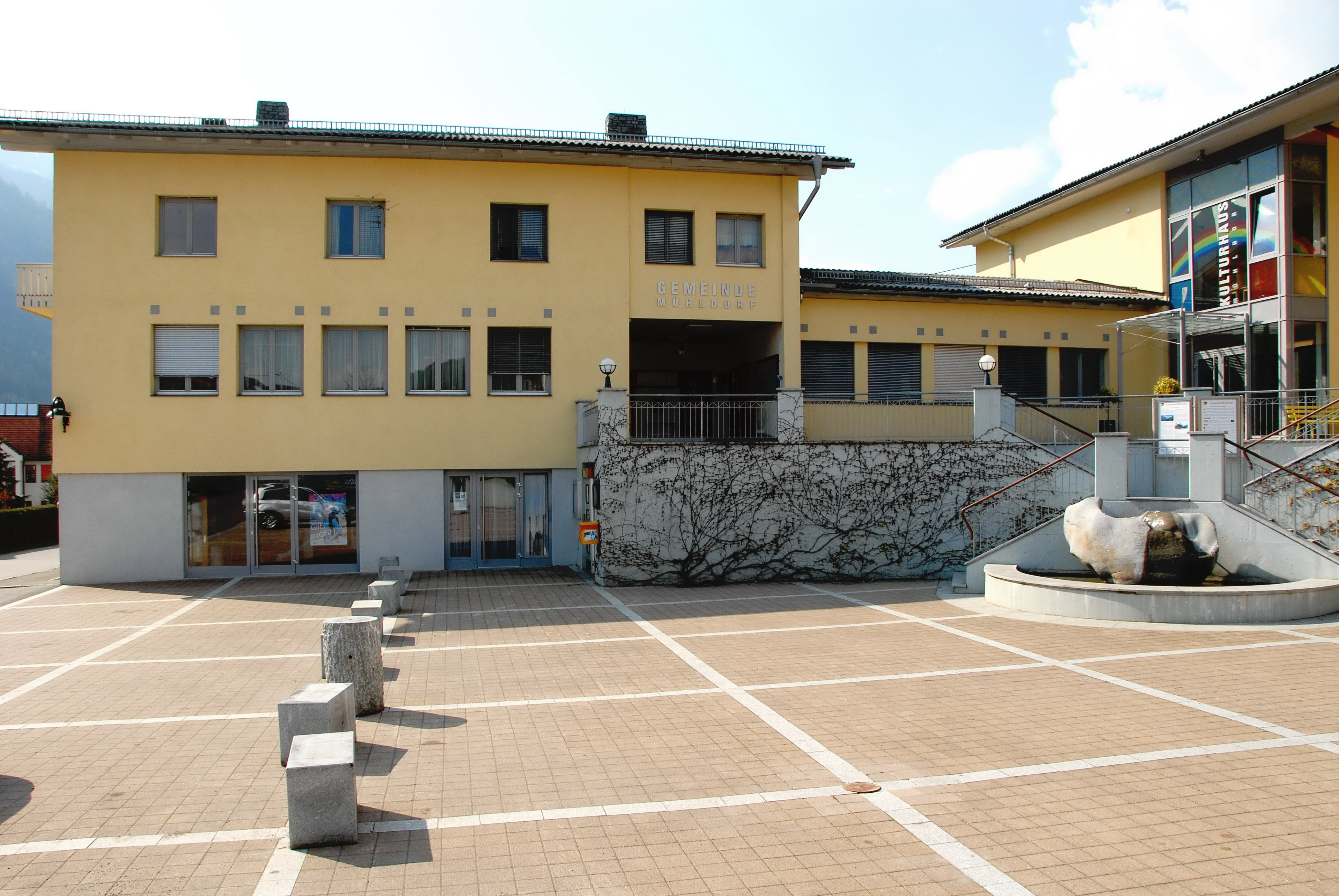 Municipal hall at Muehldorf, community in the district of Spittal by the Drau, Carinthia, Austria